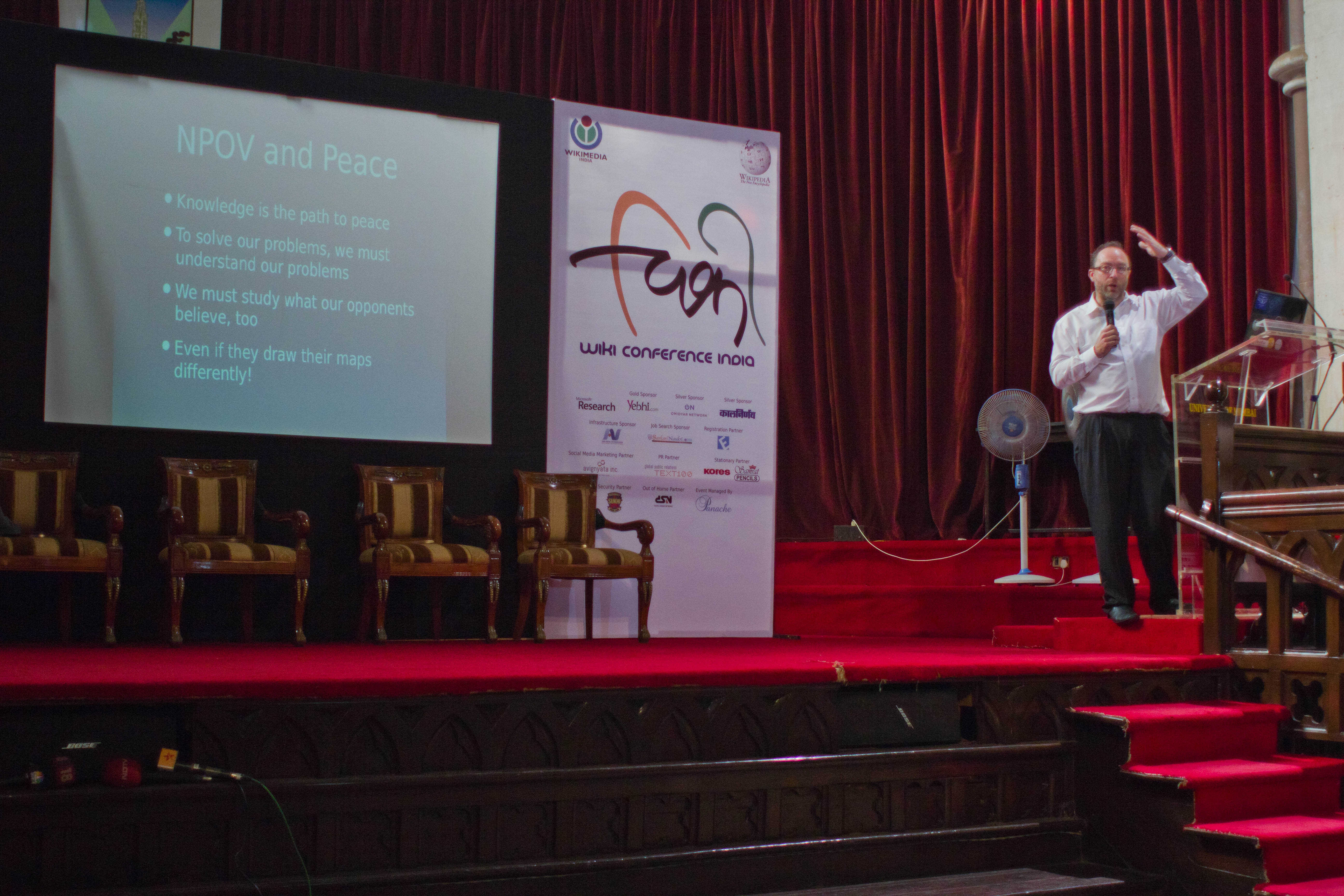 WikiConference India 2011